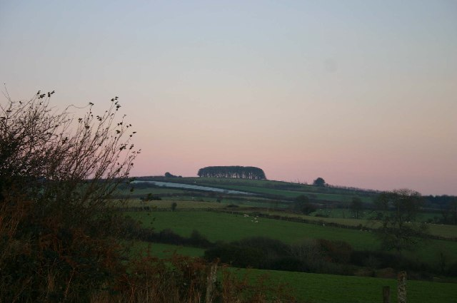 Bampfylde clump, at the top of Bampfylde Hill. This clump of trees is said to have been a landmark for the local miners returning home after a night in the pubs of North Molton.